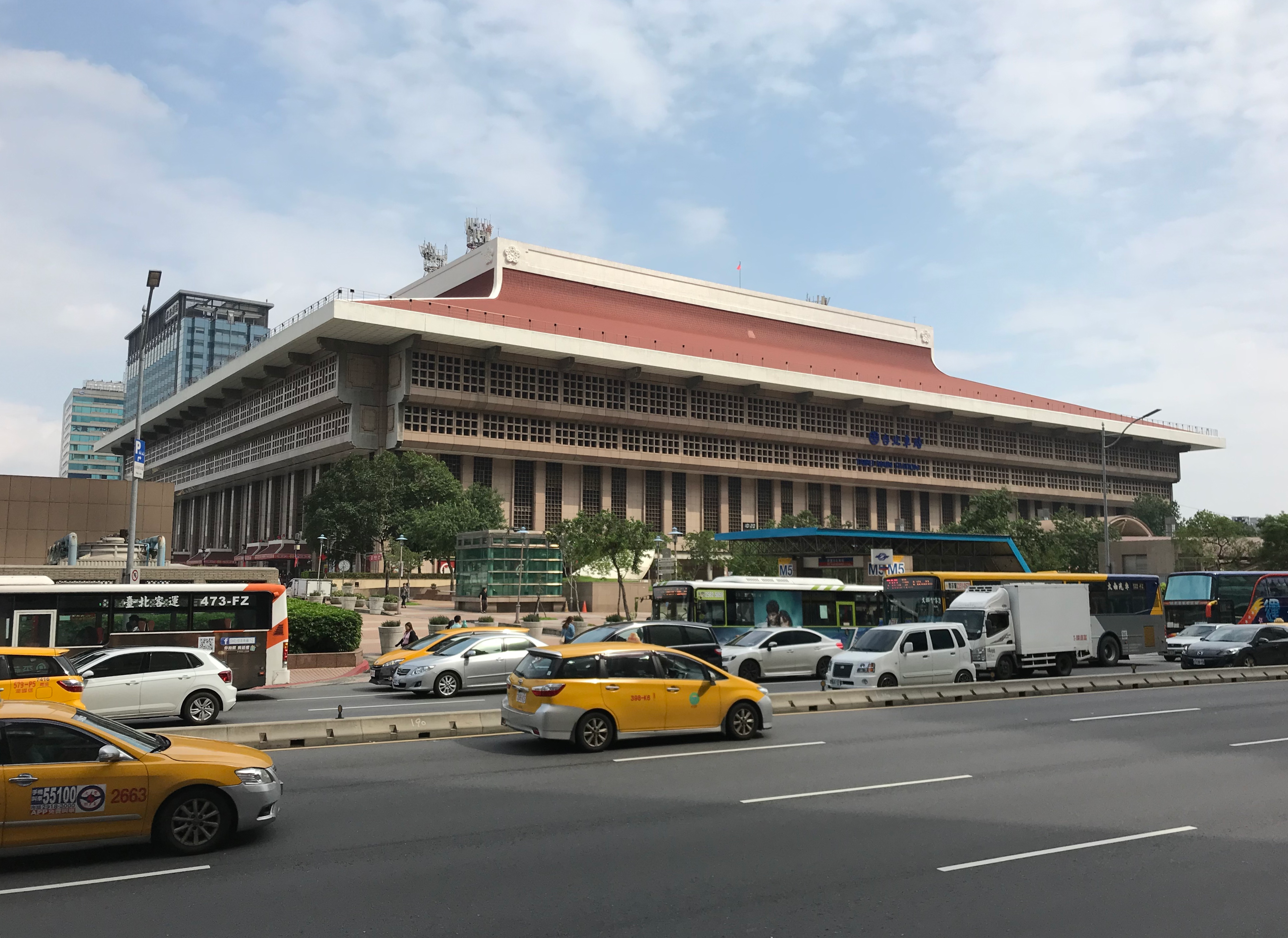 Exterior of Taipei main station in 2018